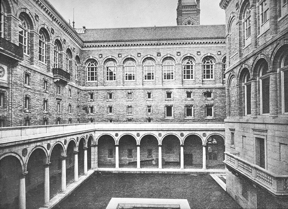 Courtyard, Boston Public Library, Copley Square, Boston, MA